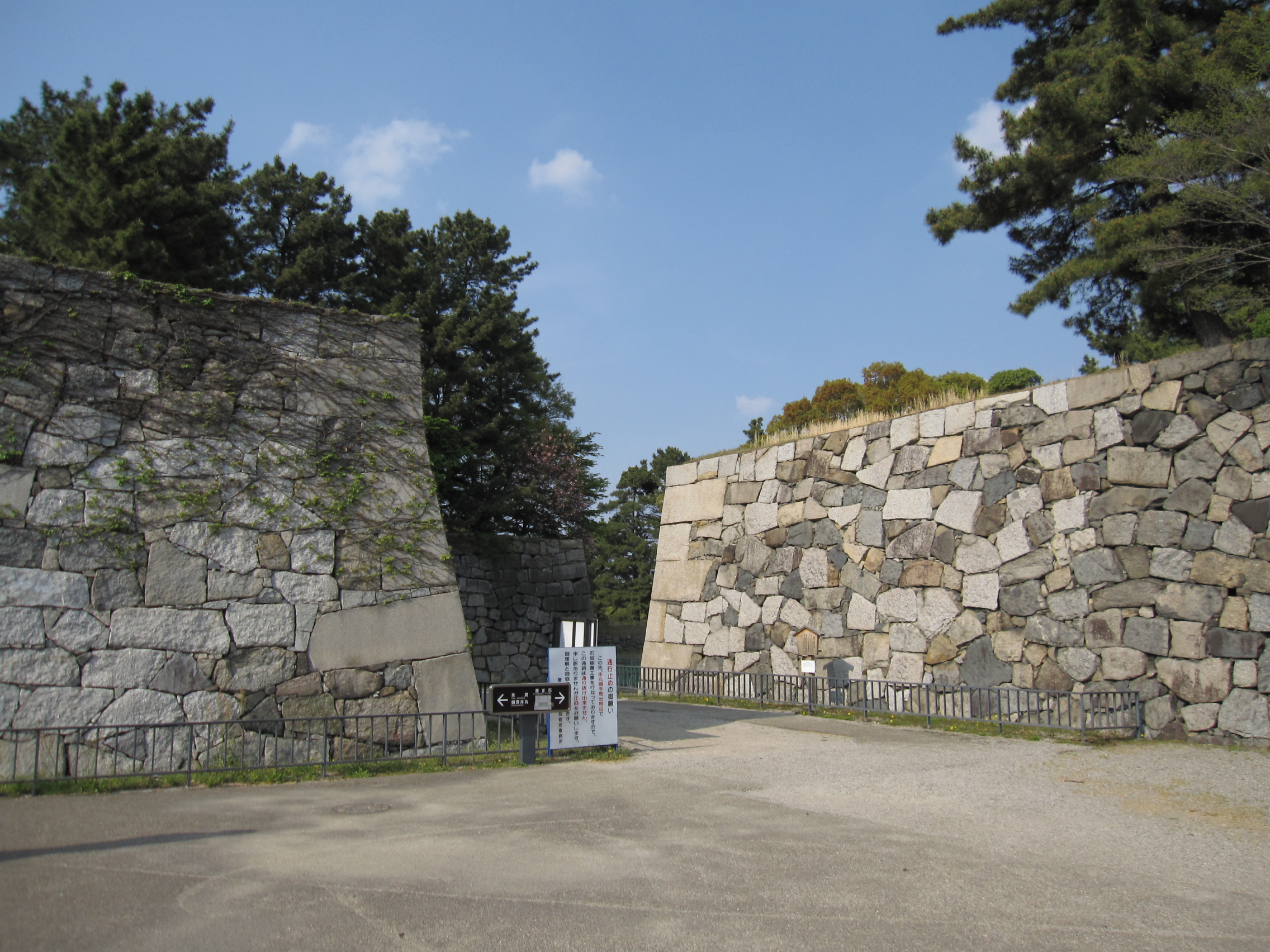 The First East Gate of Nagoya Castle was a sturdy gate that forms a square shape with the outer gate. It also had a gabled, tile-roof, along with a smaller gate on the right hand side that connects with the tower gate. This gate was similar to the First Gate that was destroyed during World War II.